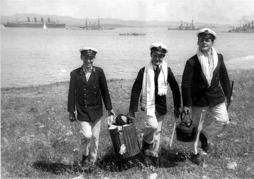 Three Royal Navy midshipmen, George Drewry, Wilfred Malleson and Greg Russell, having a picnic on Imbros during the Battle of Gallipoli. Drewry and Malleson had just been awarded the Victoria Cross during the landing at V Beach, Cape Helles, on 25 April 1915.